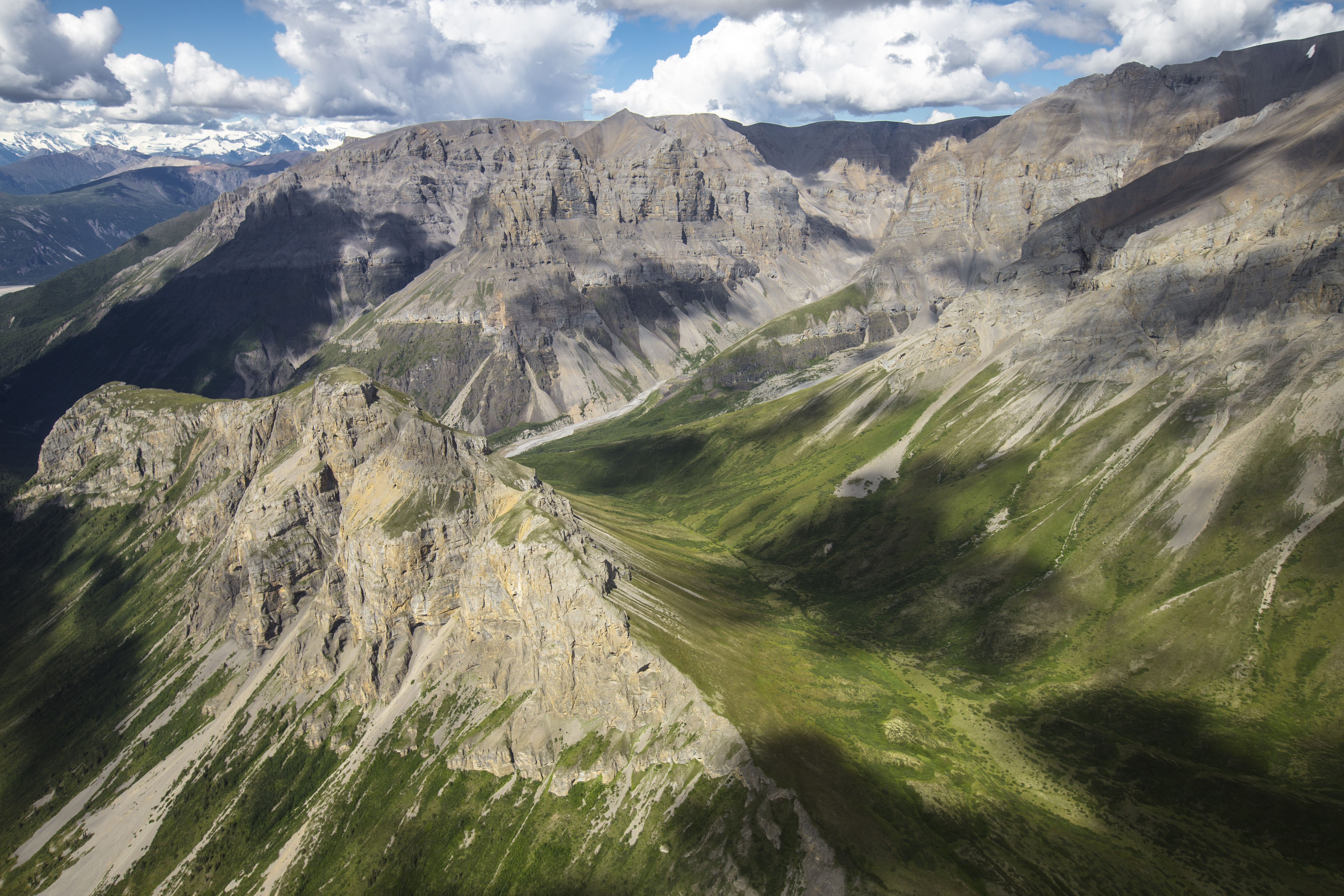 NPS / Jacob W. Frank Flight paths